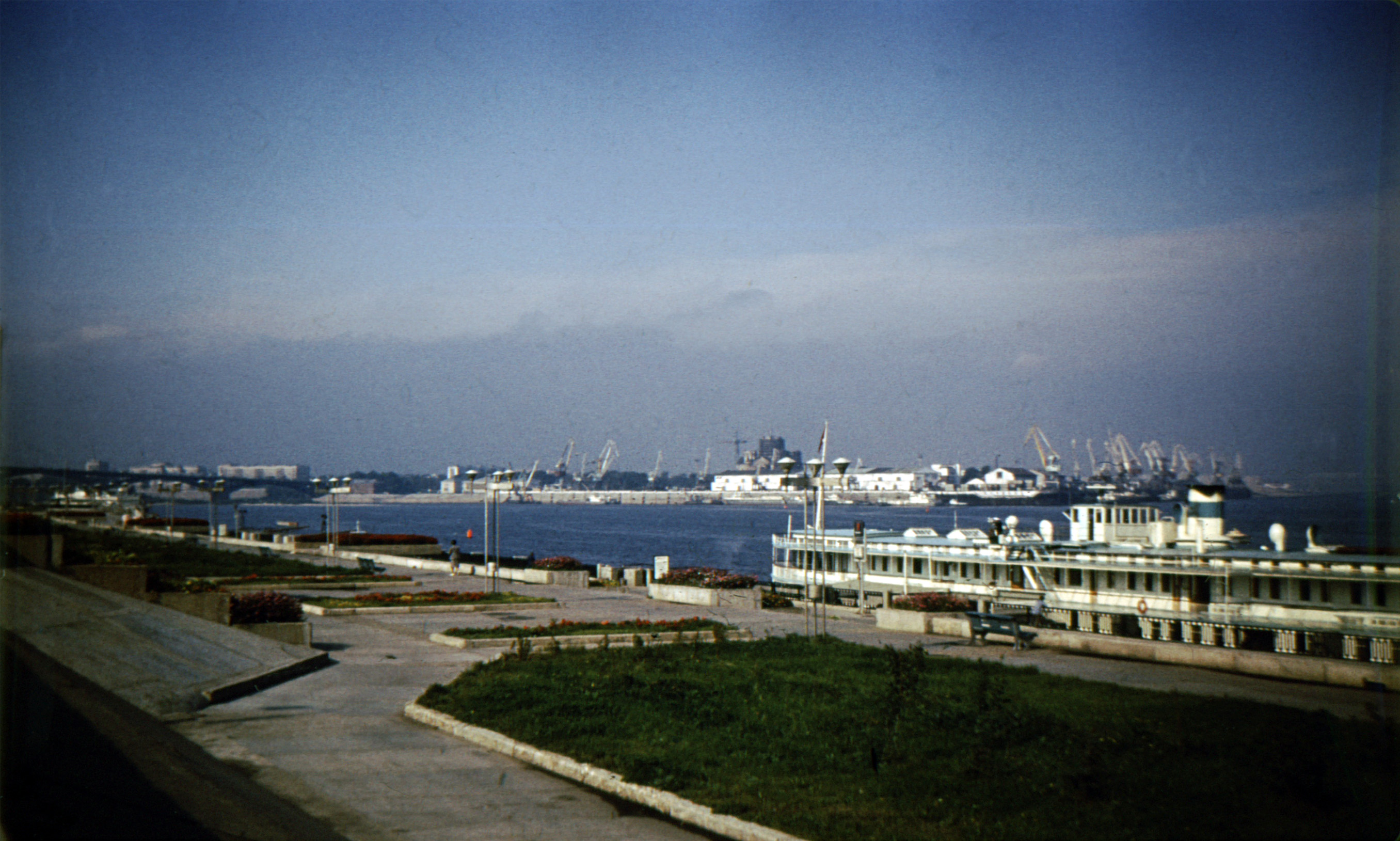 Gorky City. View to confluence of Volga and Oka Rivers